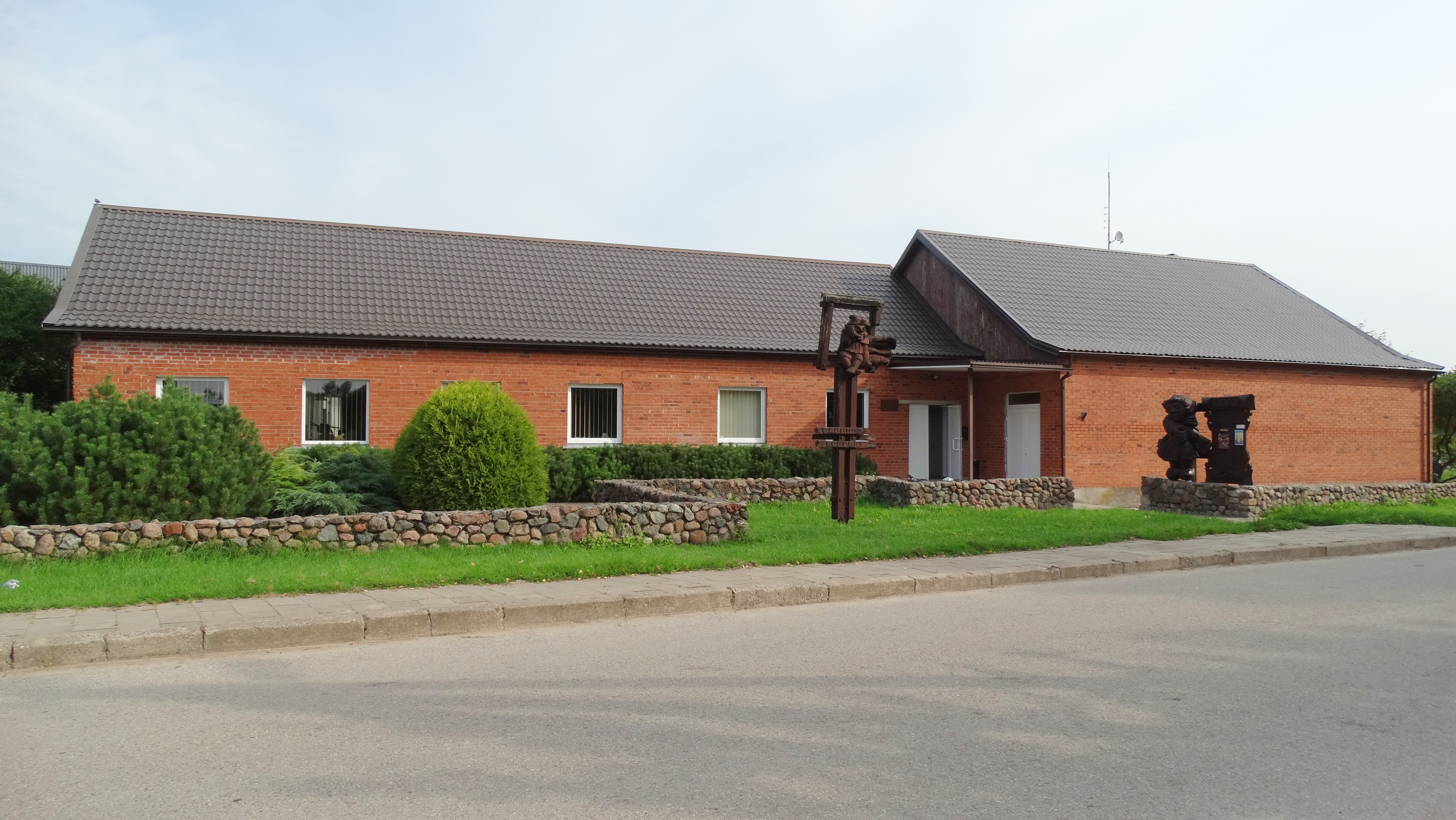 Youth club in Babtai, Lithuania